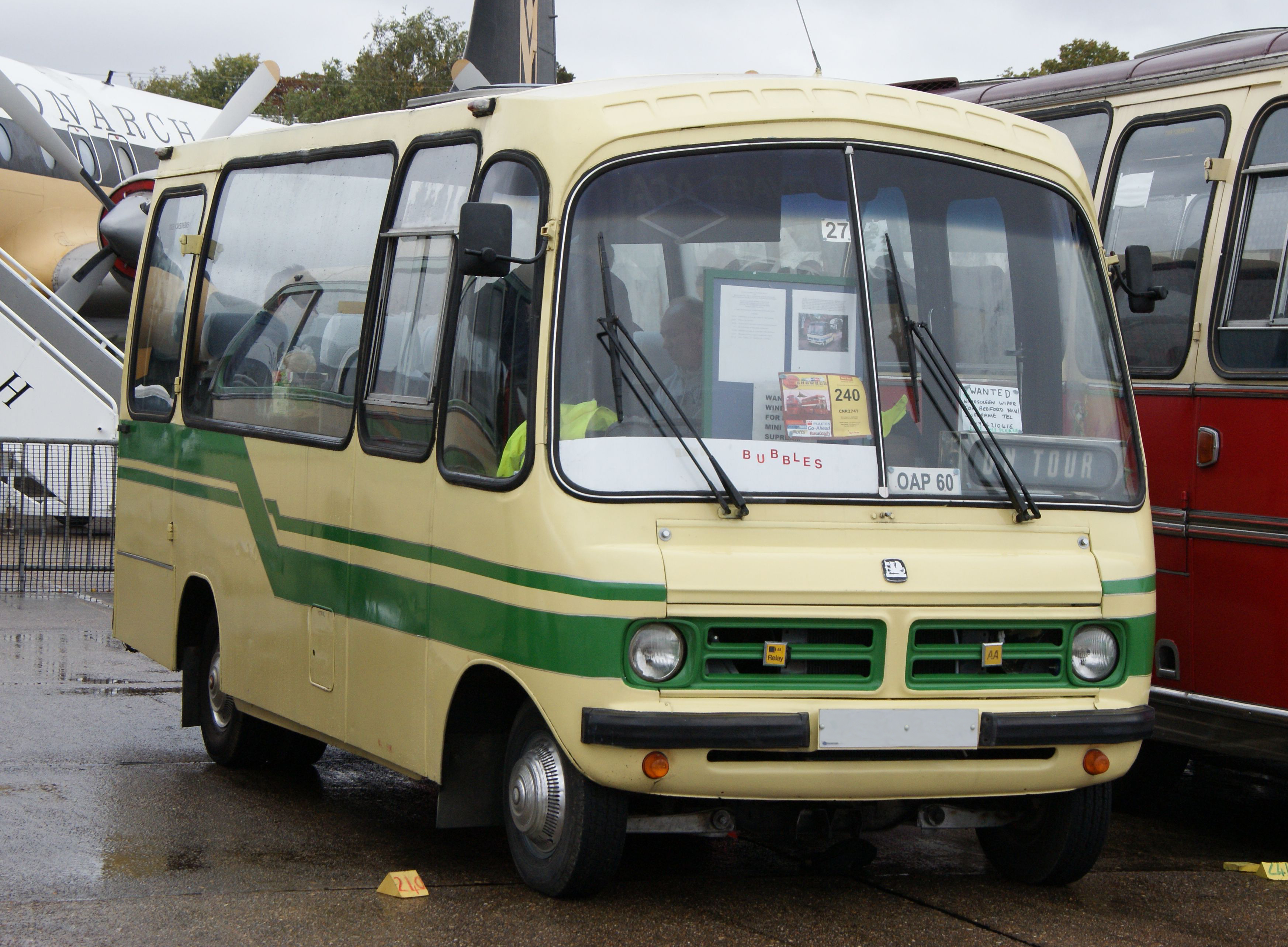 1979 Bedford CF based midsized bus, for some reason nicknamed "Bubbles". 2064cc petrol engine.